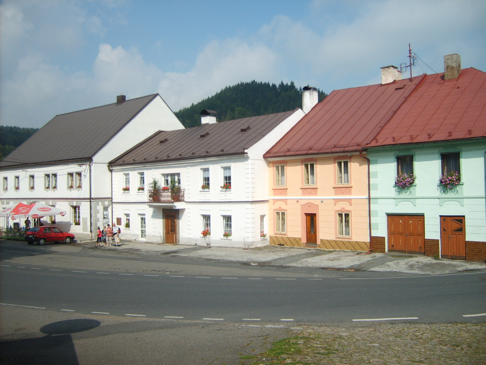 Town houses on the square in Rejštejn.